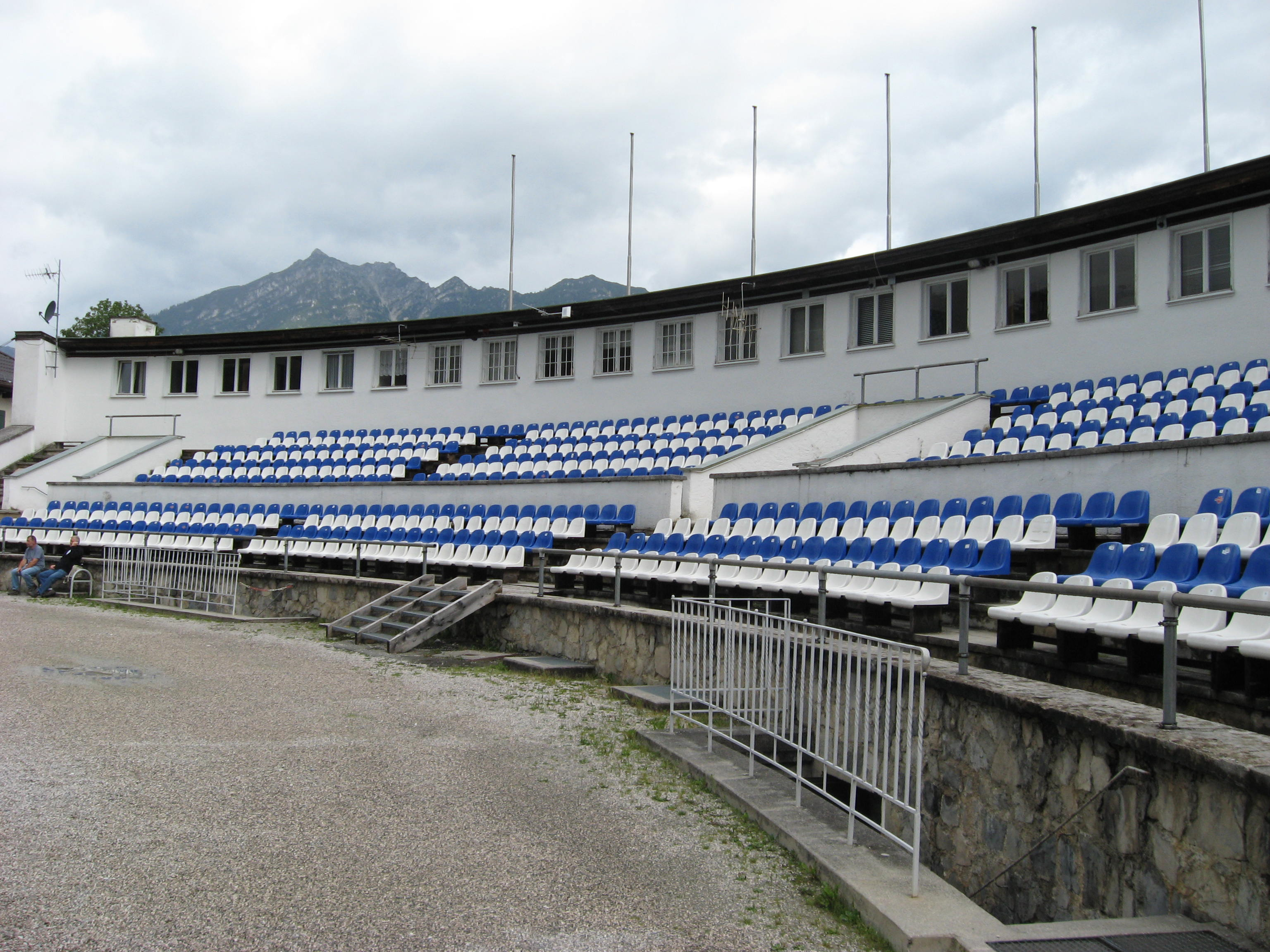 Seating area